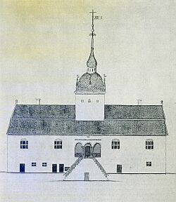 Austråttborgen (Manor of Austrått) in Ørland, Norway